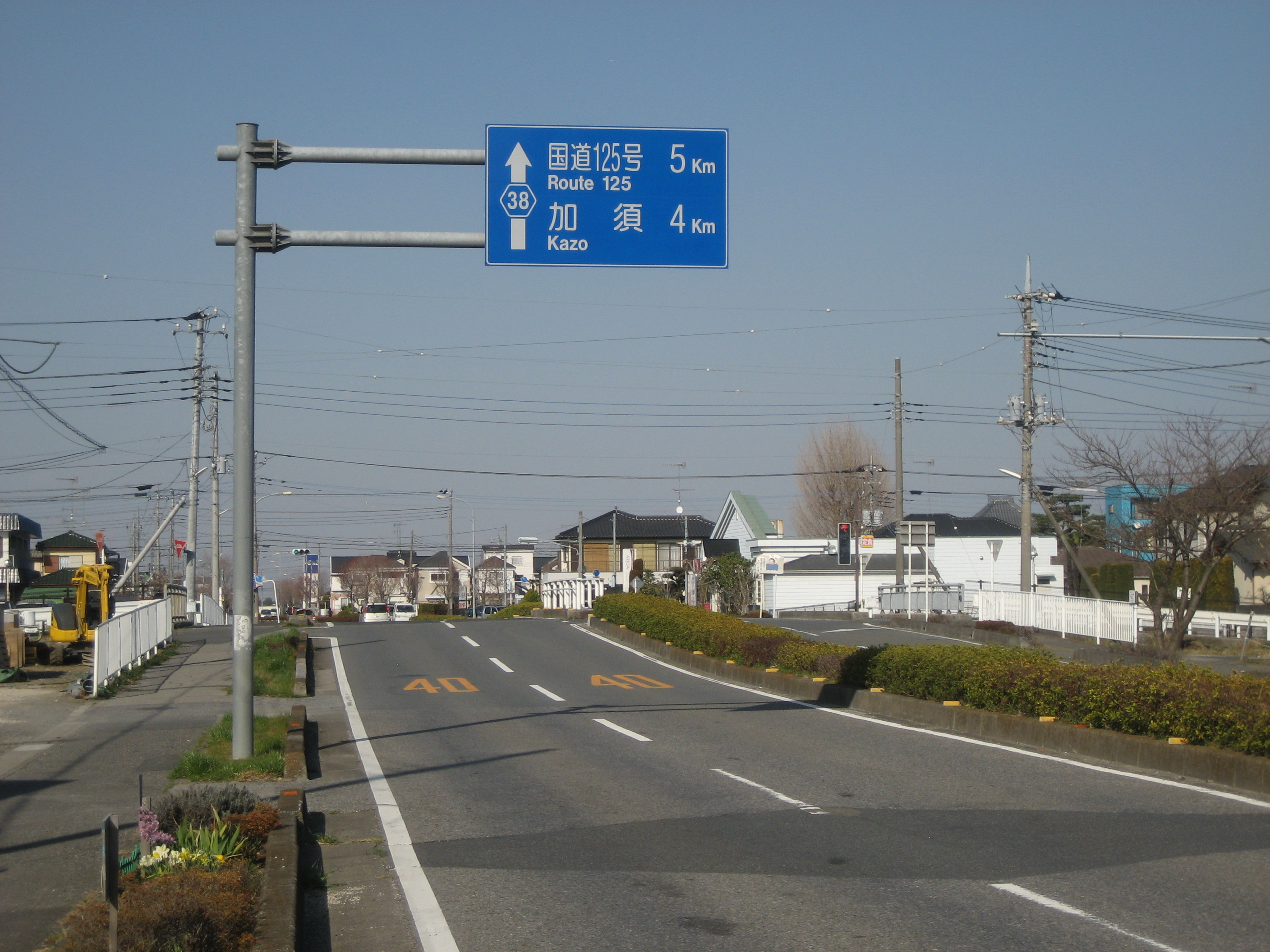 The Saitama Prefectural Road Route 38 in Kisai, Kazo City